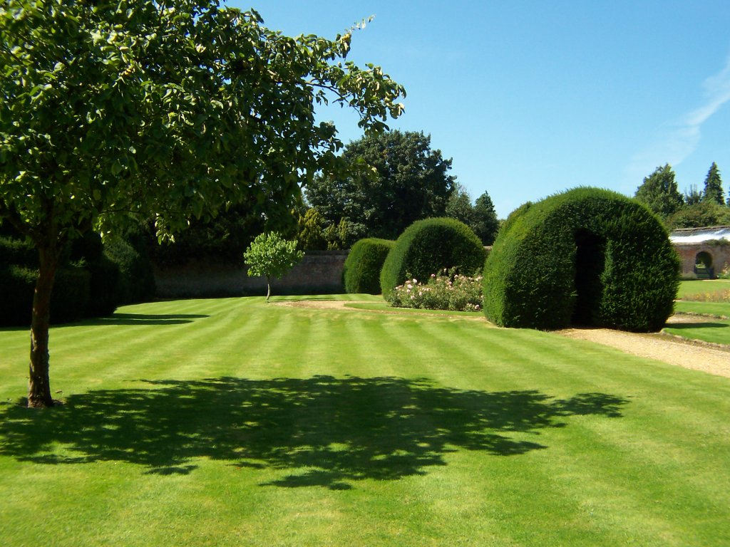 Lawn with mown stripes, and Yew (Taxus baccata) topiary in gardens at Highclere Castle.